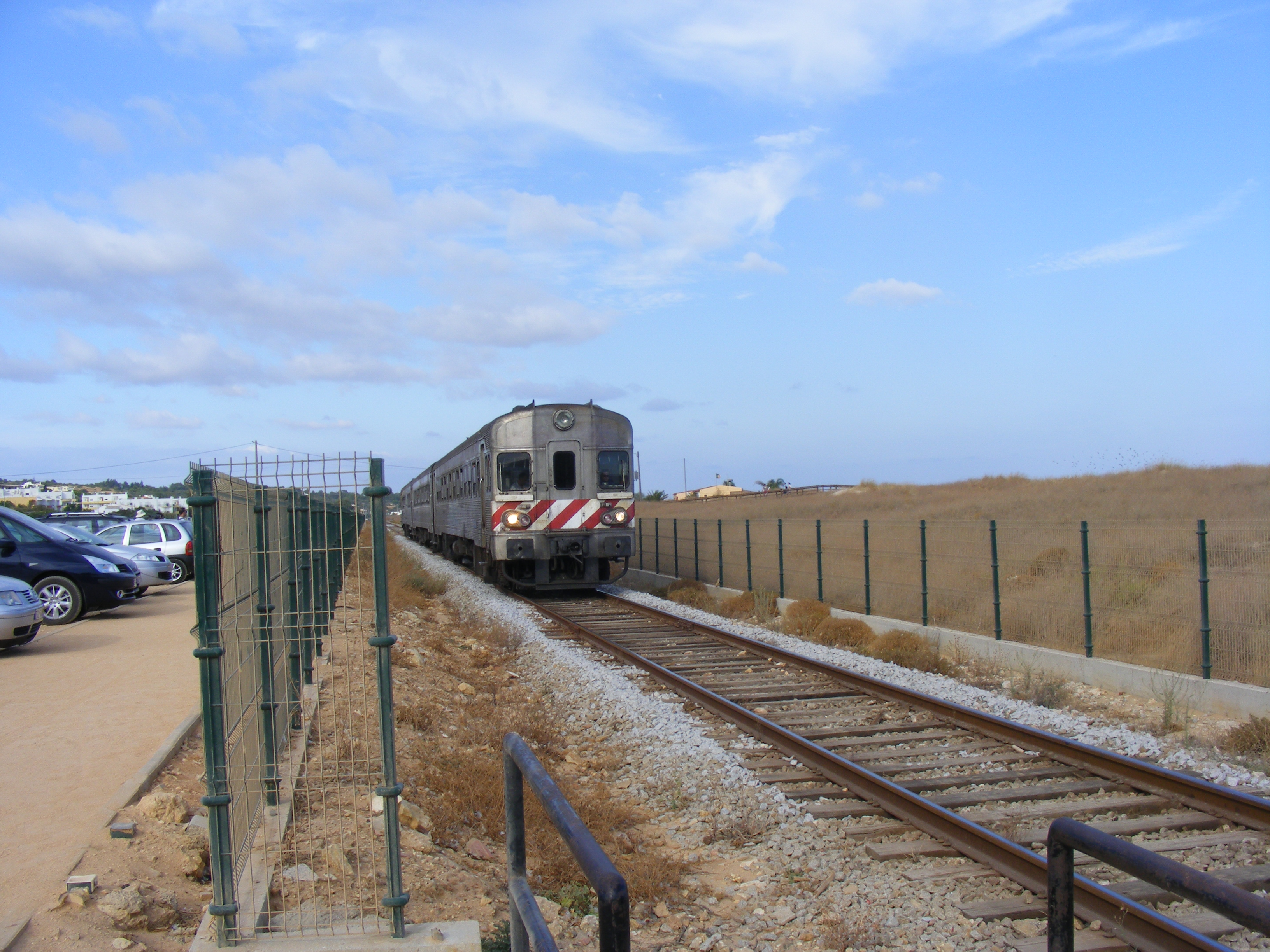 Diesel train near Lagos (Portugal)